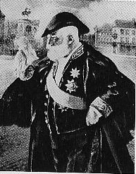 Image (Portrait) of Paul Eyschen (1841 - 1915), Prime Minister of Luxembourg from 1888 till his death in 1915